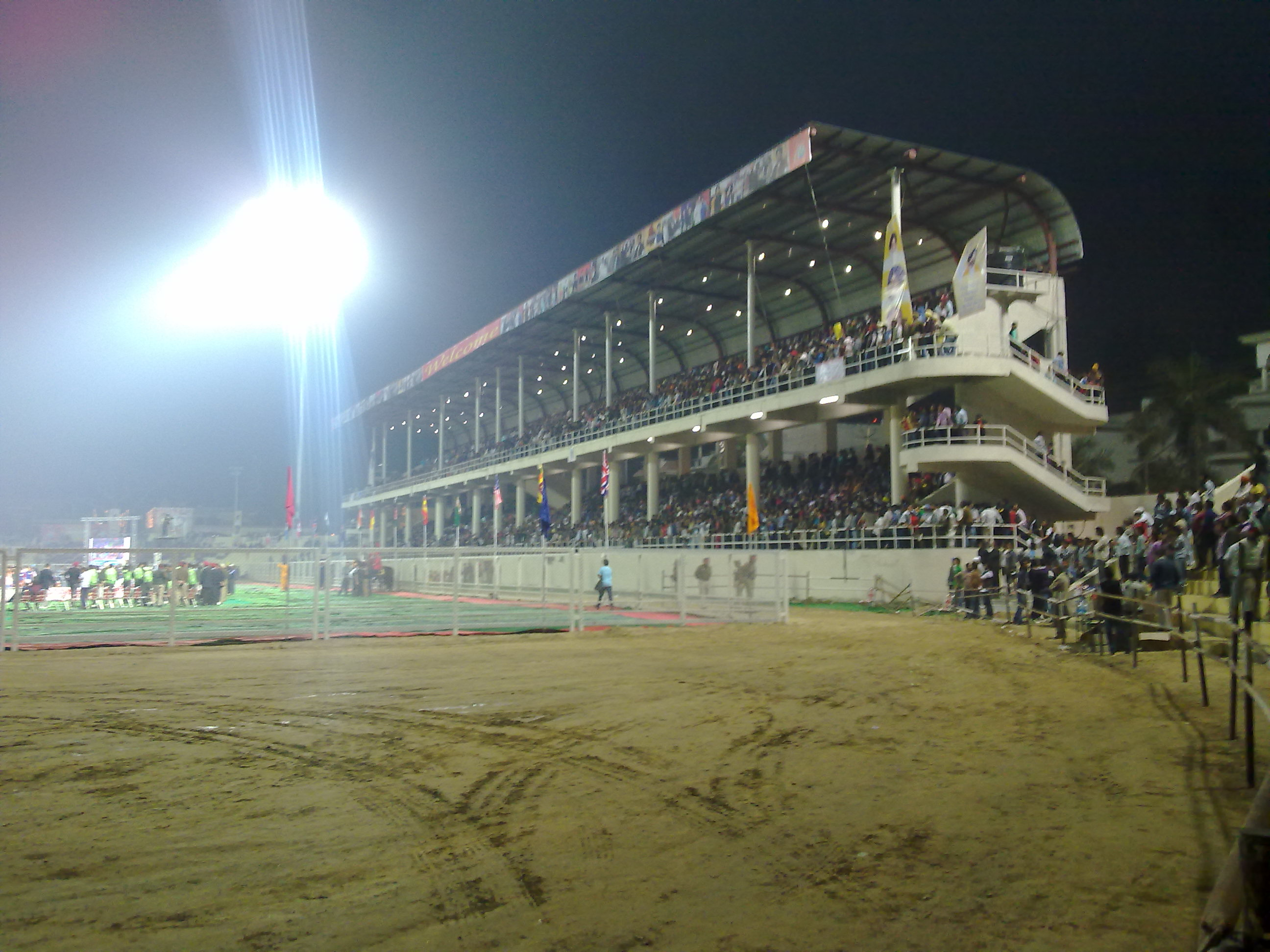 View Of Side Stand Of Guru Gobind Singh Stadium During Kabaddi Match